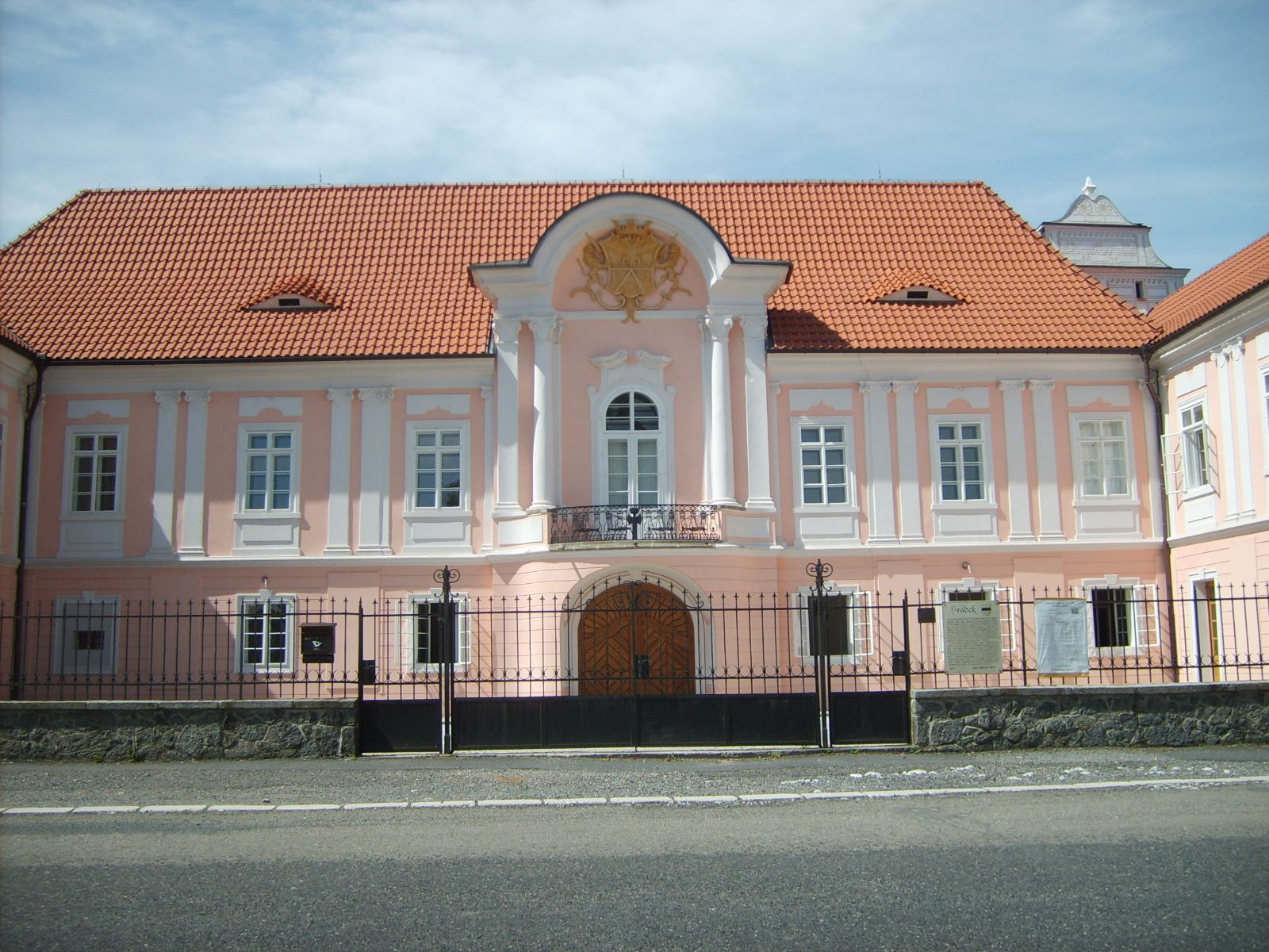 Chateau of Hrádek u Sušice